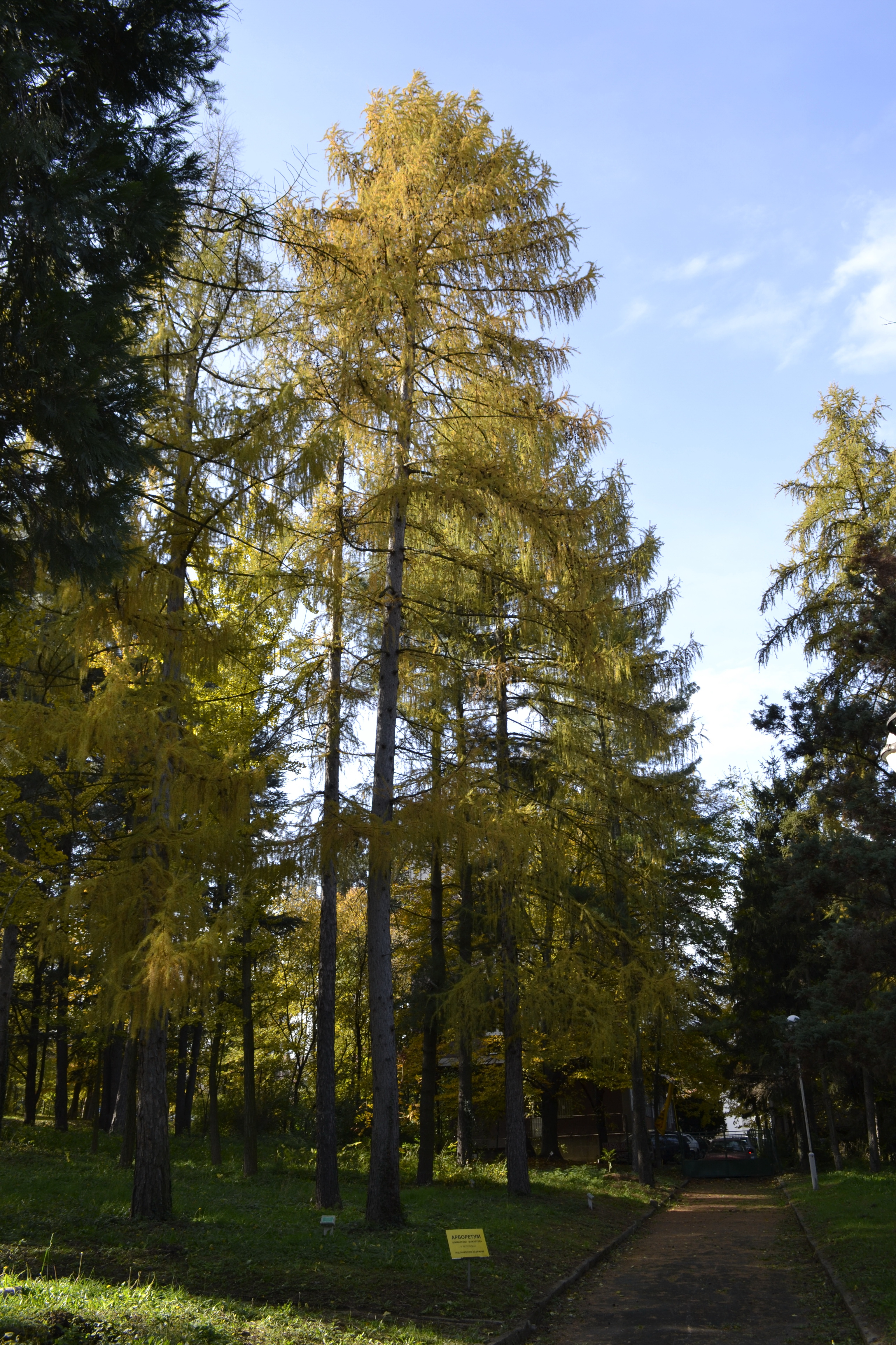 European larch Larix decidua in the arboretum of Faculty of Forestry in Belgrade.